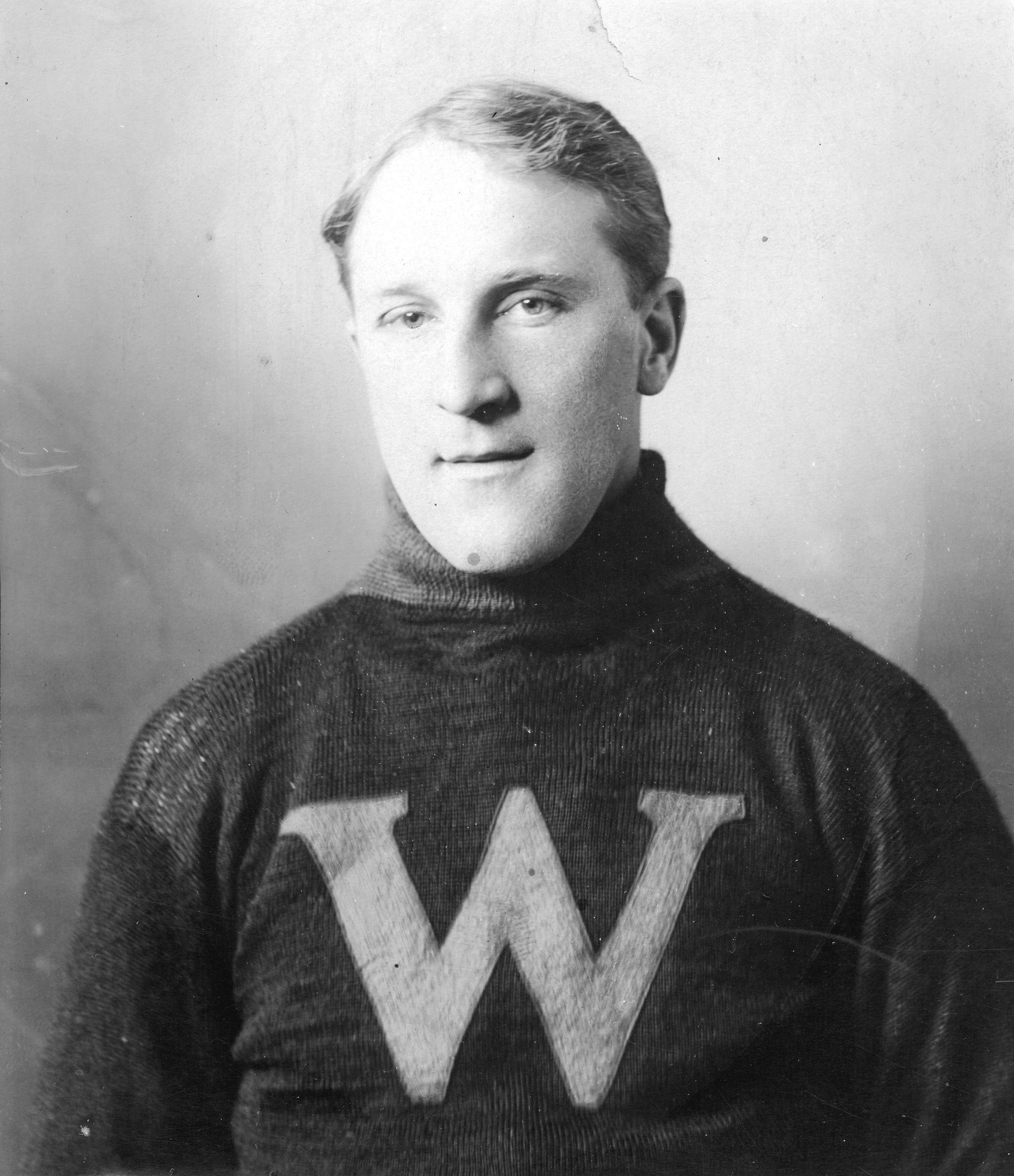 Photograph of ice hockey player Ernie "Moose" Johnson, New Westminster Hockey Team Champions P.C.H.A.